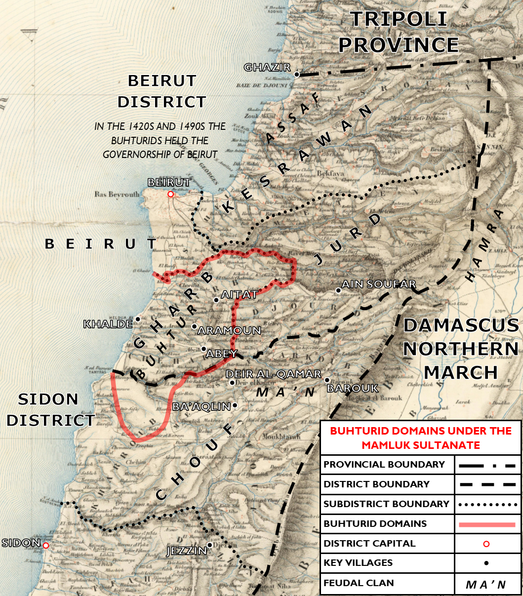 Approximate Buhturid feudal domains (iqta'at) outlined in red in the Gharb Subdistrict (Amal al-Gharb) of the Beirut District (Wilayat Beirut) and the Chouf Subdistrict (Amal al-Shuf) of the Sidon District (Wilayat Sidon), both part of the Northern March (Safaqa al-Shamaliyya) of Damascus Province (Mamlakat Dimashq) of the Cairo-based Mamluk Sultanate. Two members of the Buhturid family held the governorship of Beirut District in the 1420s and 1490s, respectively.